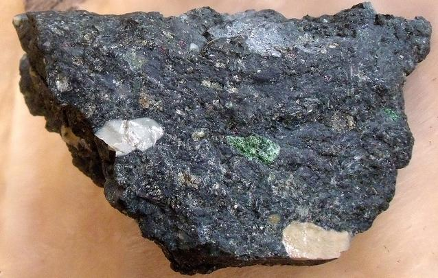 Kimberlite sample from the Cumberland Peninsula on Baffin Island, Nunavut, Canada.